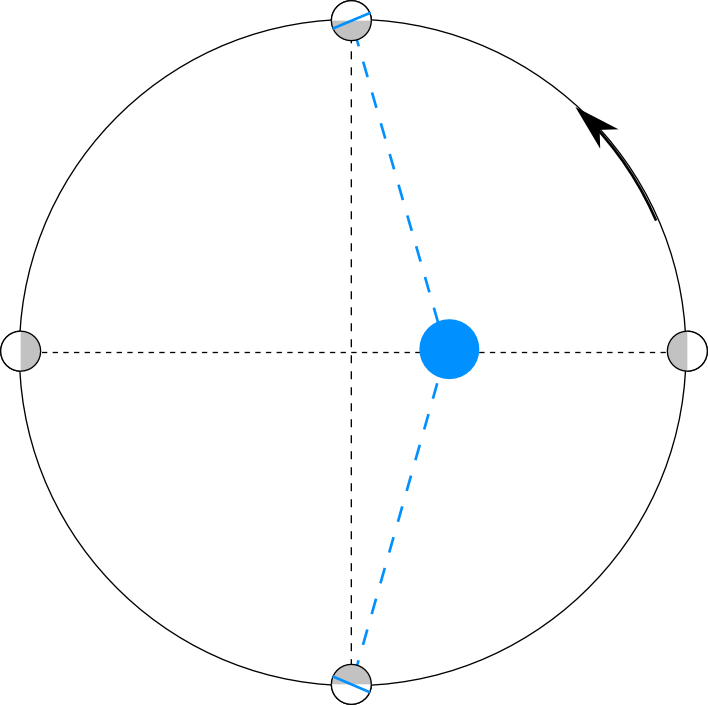 Lunar libration in longitude, the apparent motion due to the Moon's elliptical orbit